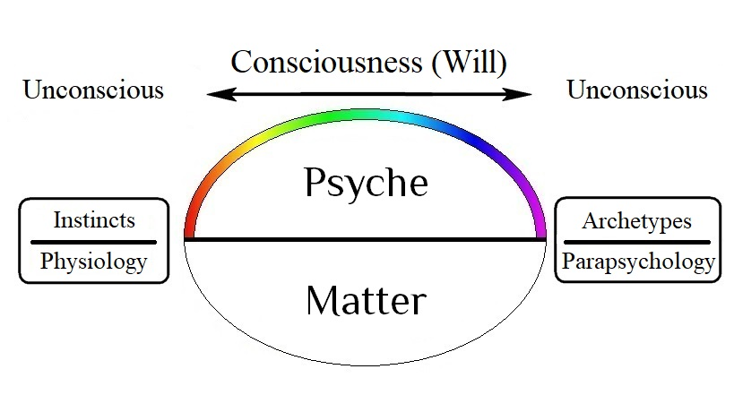 Model of Unus Mundus according to Carl Gustav Jung. Based on File:Unus Mundus according to Jung (ru).jpg.